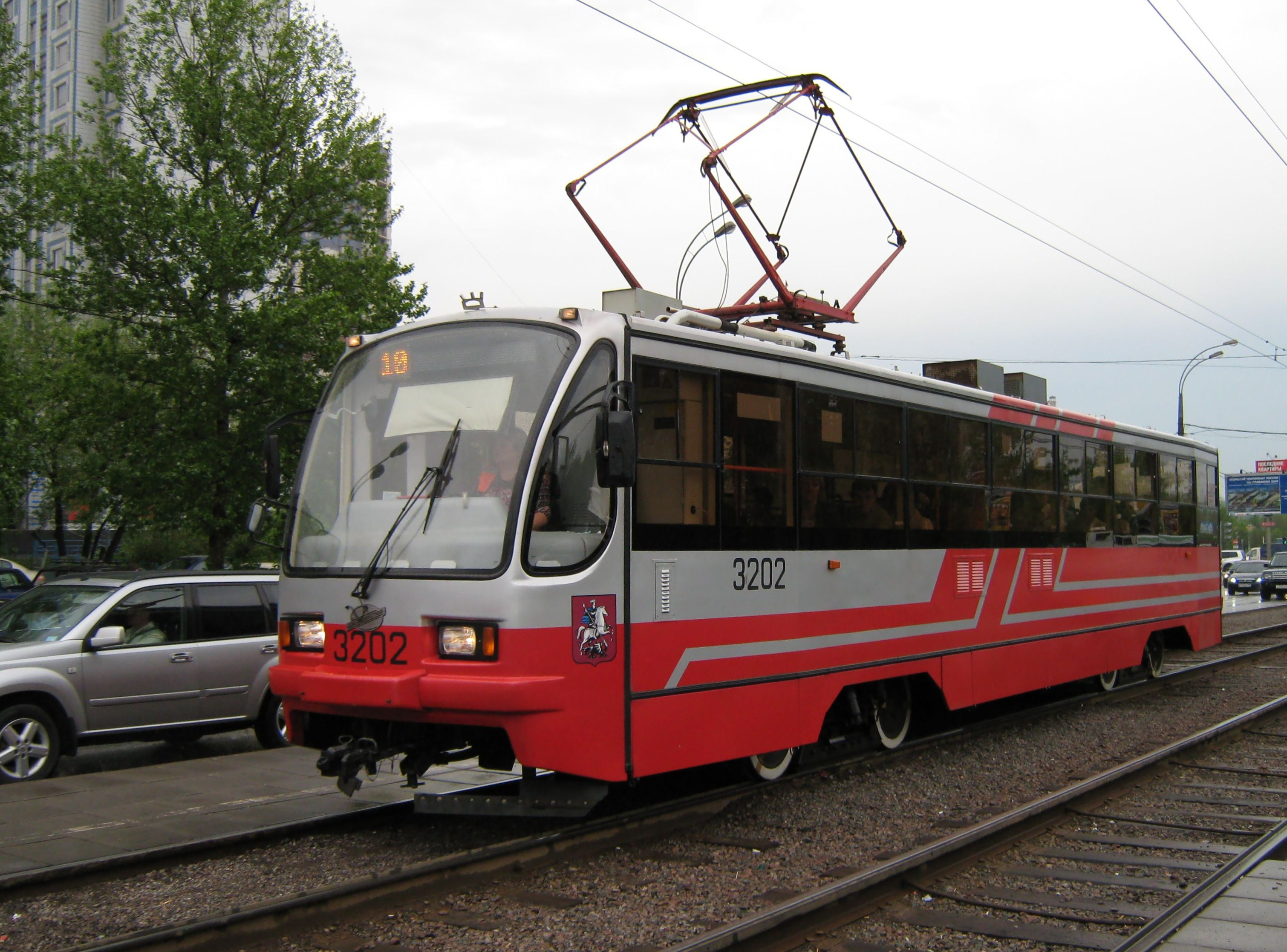 Tram 71-405-08 in Moscow.